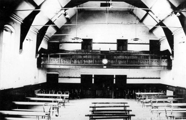 Interior of former St Mark's Sunday School, built 1880s. Possibly designed by William Swinden Barber.